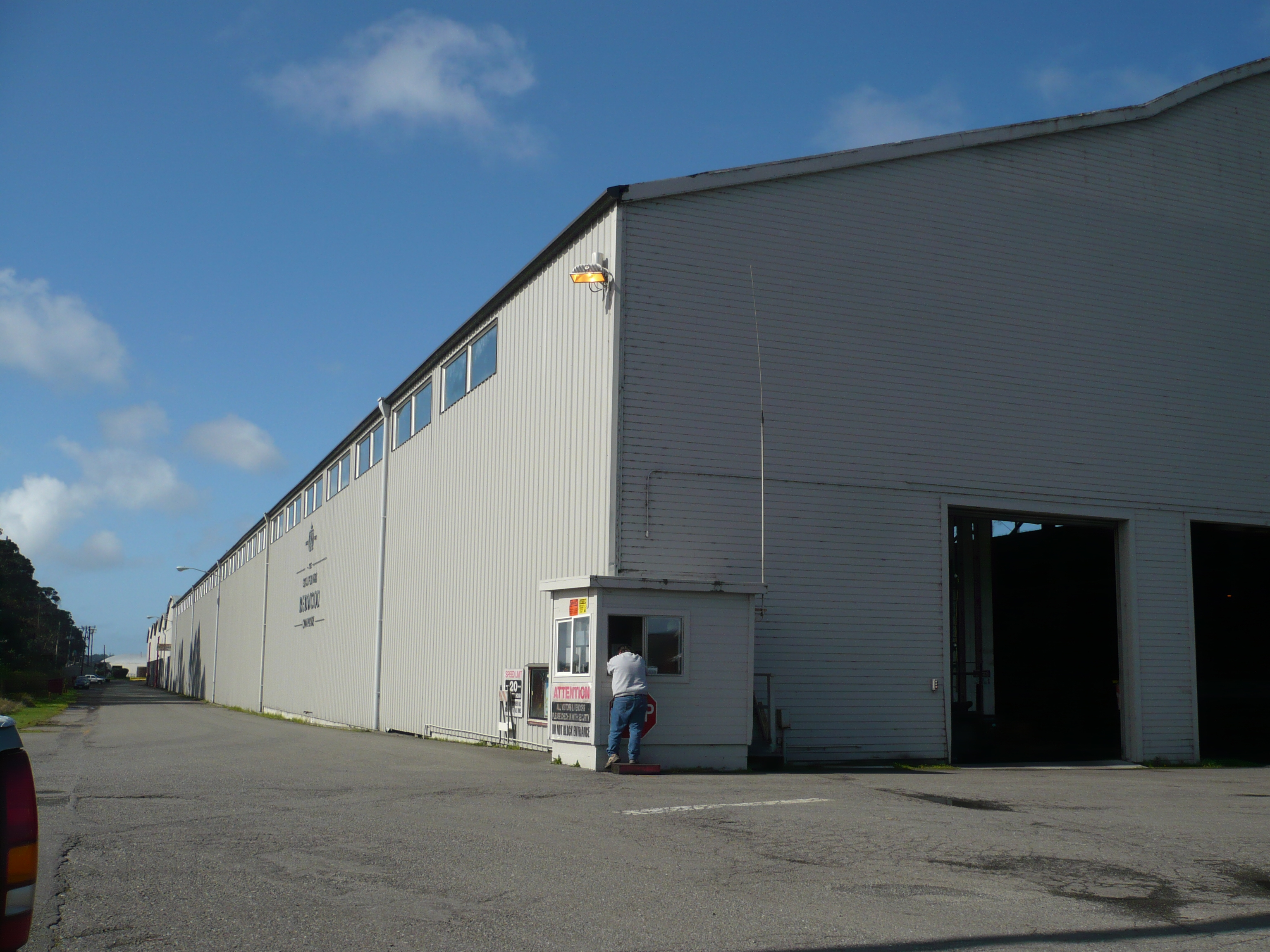 California Redwood Company remanufacturing plant at Brainard, California which is an unincorporated community and former railroad town in Humboldt County, California located on the Northwestern Pacific Railroad 4 miles (6.4 km) south-southwest of Arcata at an elevation of 7 feet (2 m).